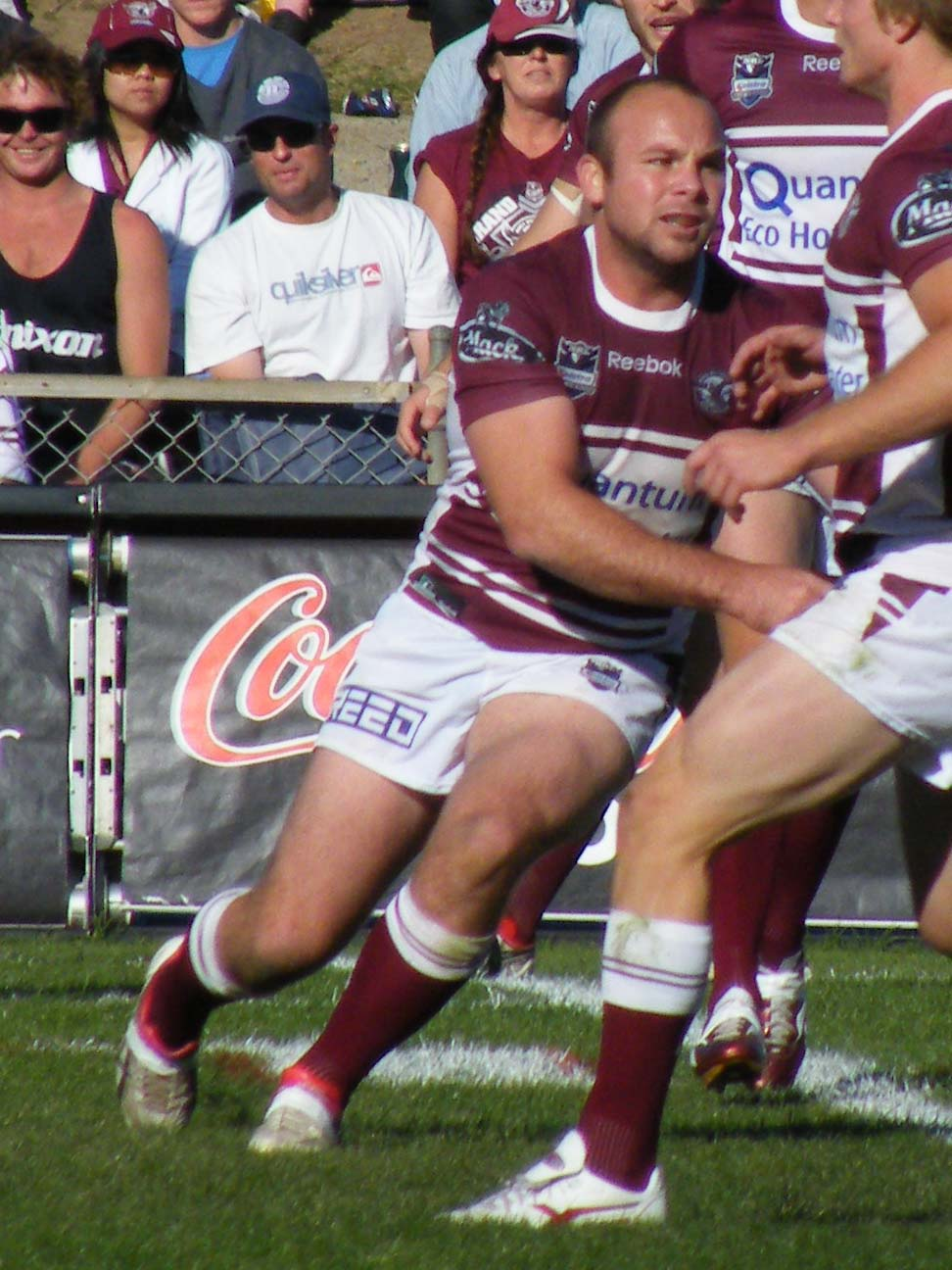 Manly Sea Eagles player Glenn Stewart